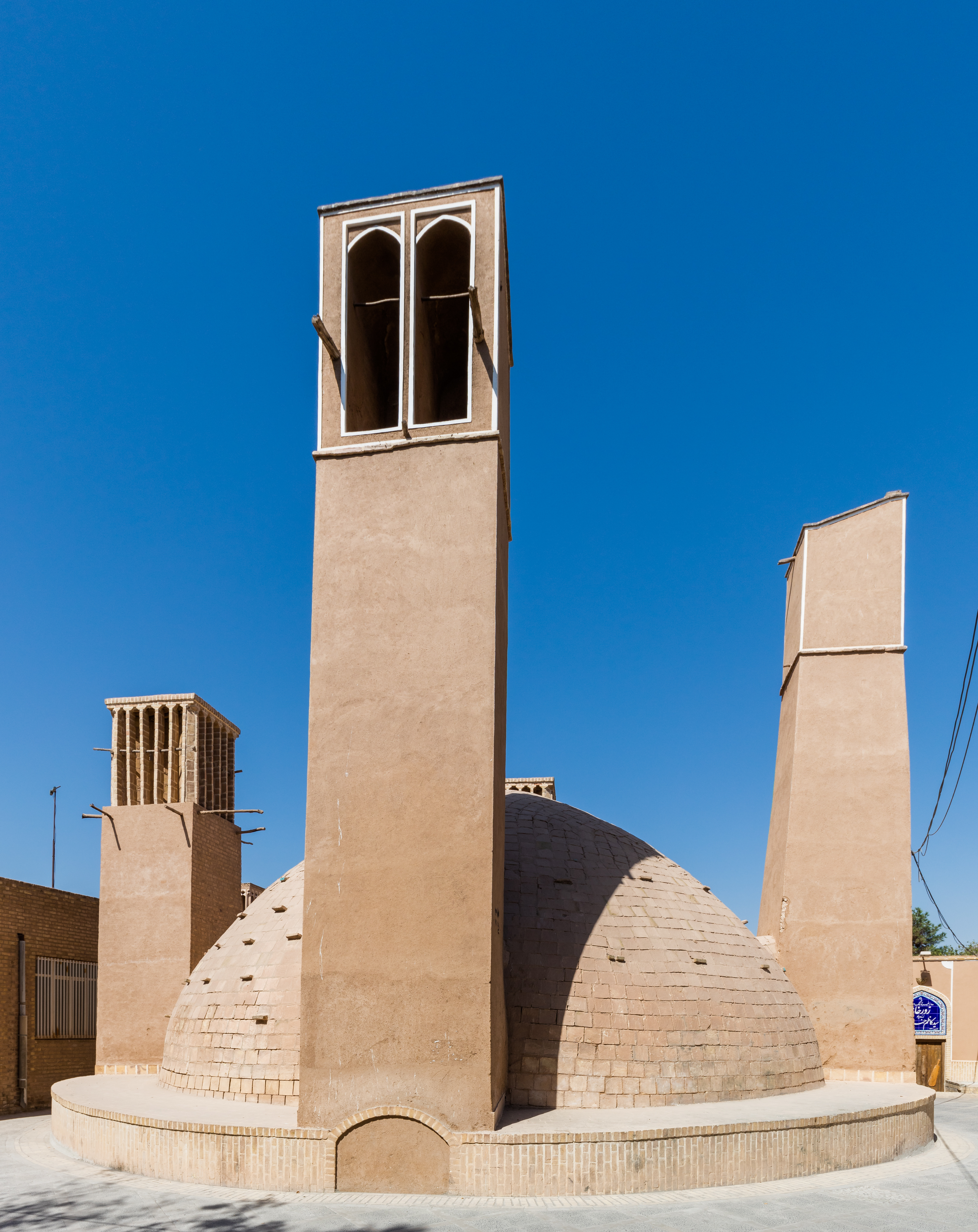 Building in Yazd, Iran